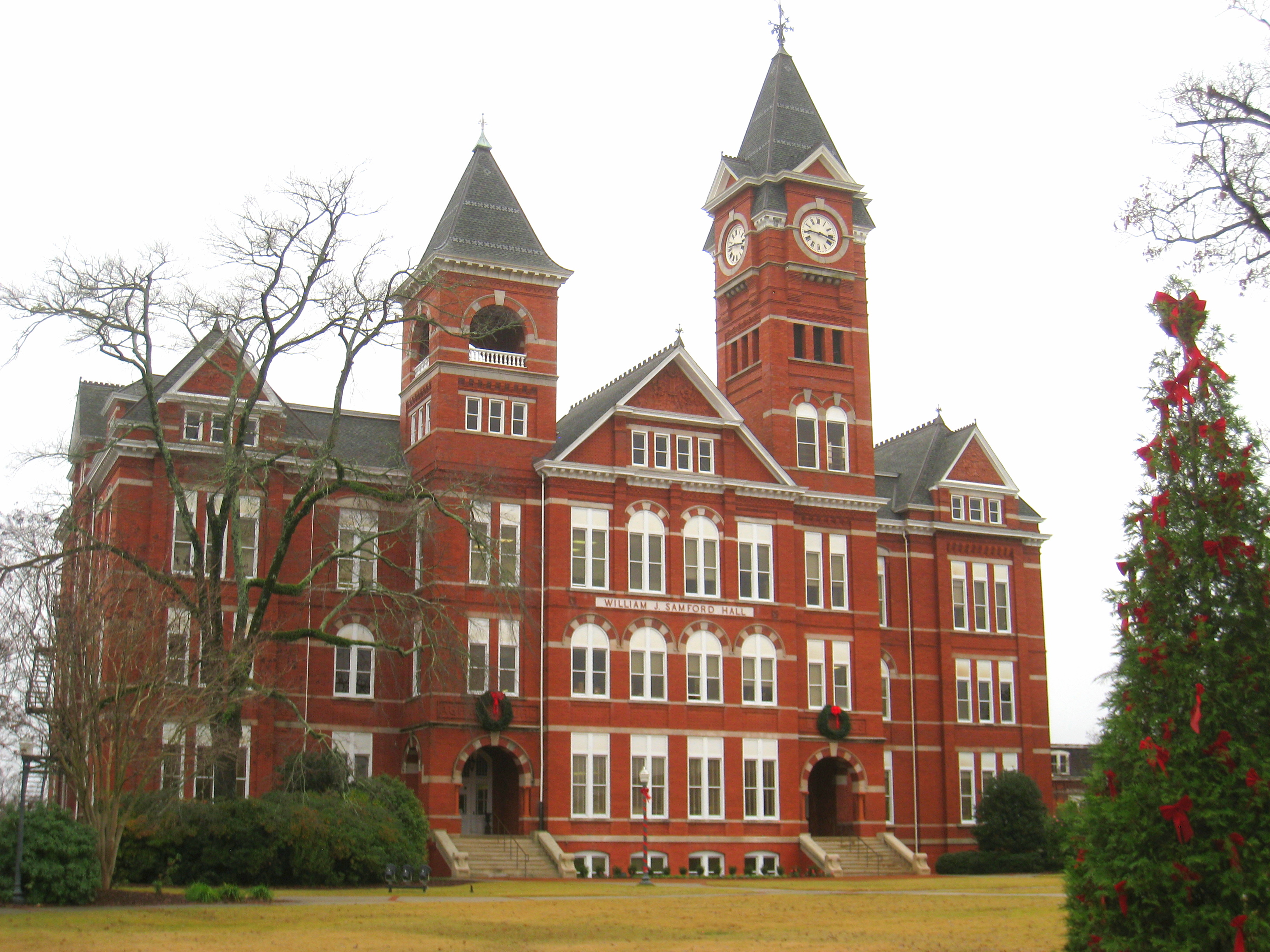 William J. Samford Hall, Auburn University, Auburn, Alabama, USA.